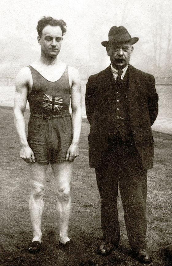 Sport, 1912 Olympic Games, Athletics, Athletics Coach Sam Mussabini, right, is pictured with Great Britain's William Applegarth who won the Bronze medal in the Mens 200 metres at the 1912 Olympic Games in Stockholm, Sam Mussabini also coached Britain's Harold Abrahams to win the Mens 100 metres Gold medal at the Paris Olympics of 1924